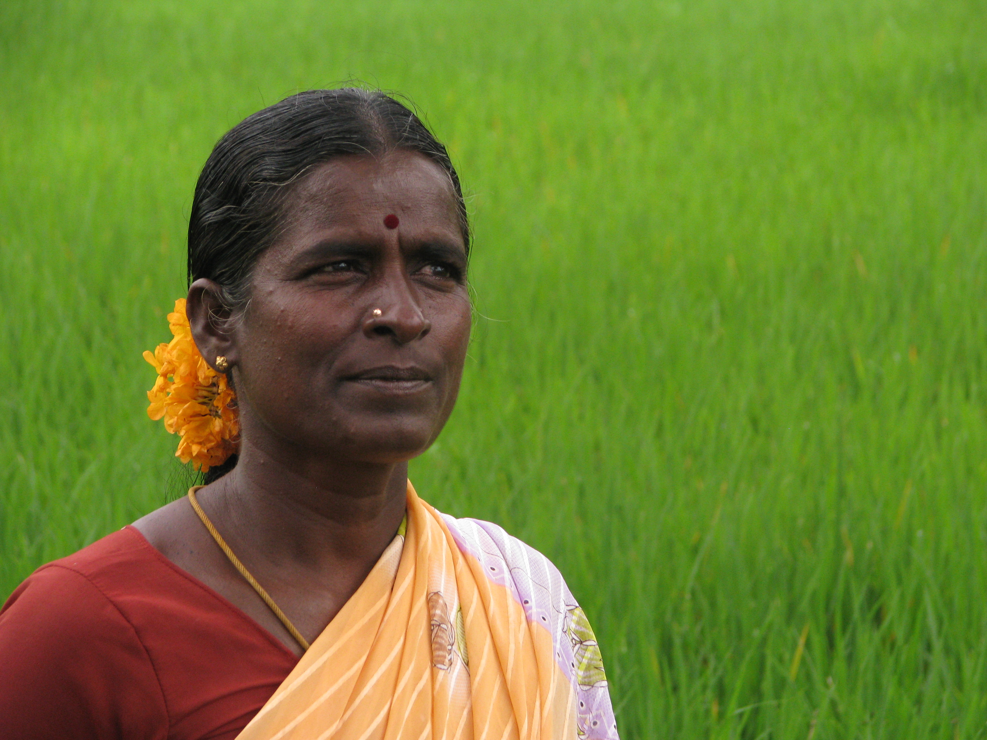 Indian woman at rice planting site